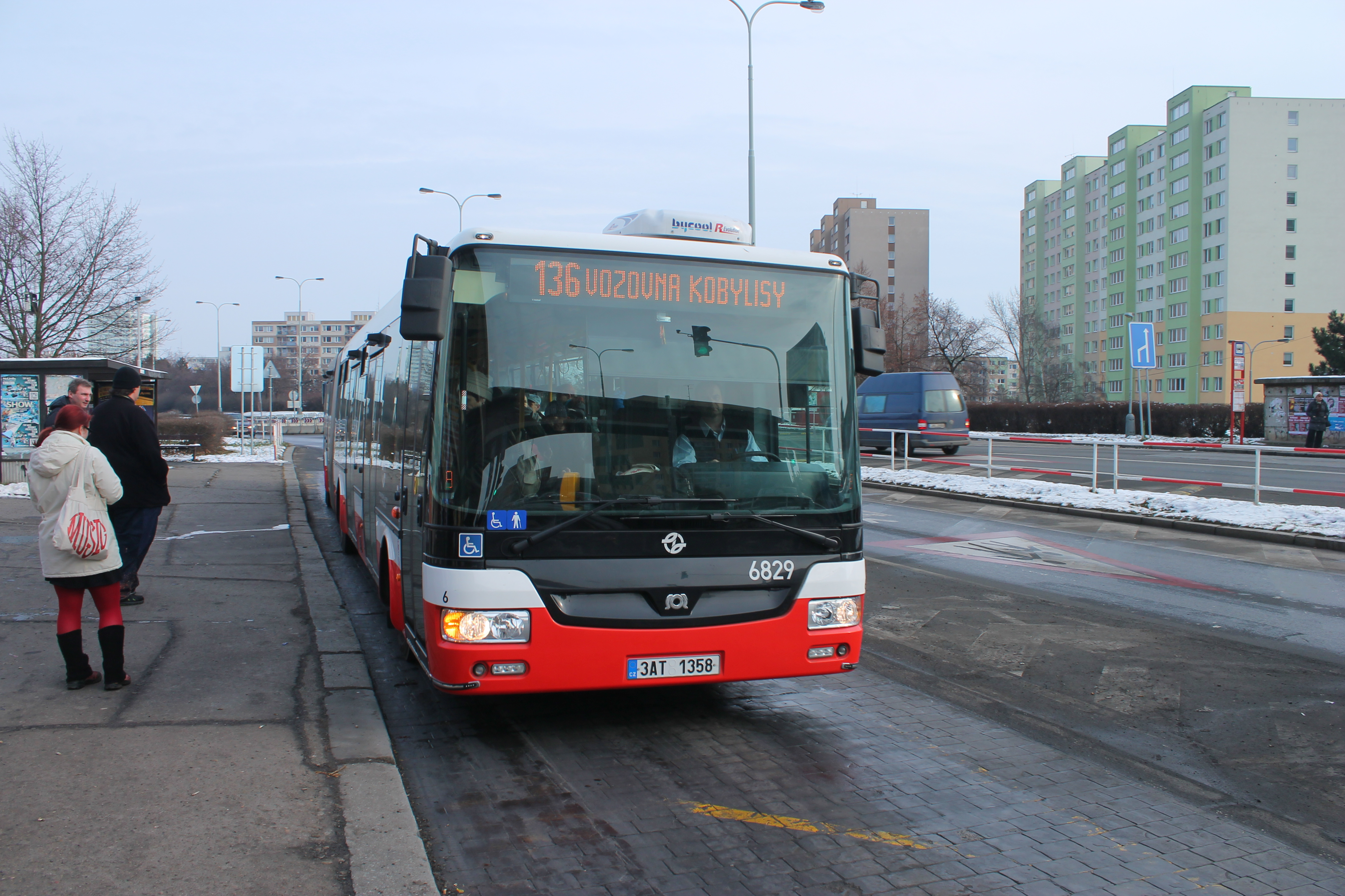 Bus SOR NB 18, number 6829, line 136, Metodějova stop, Prague